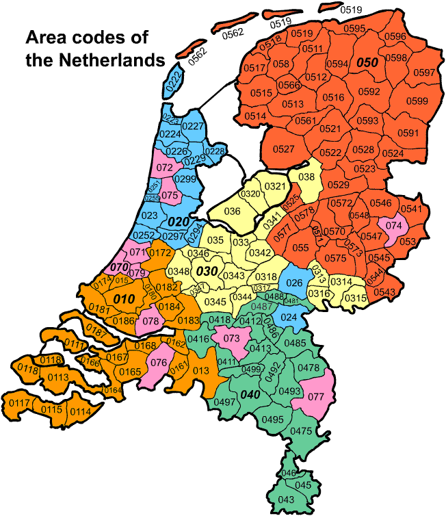 Self-made image of the Dutch area codes. Ofbyld:Netnumers yn Nederlan.gif Afbeelding:Netnummers in Nederland.gif Summary Self-made image of the Dutch area codes.